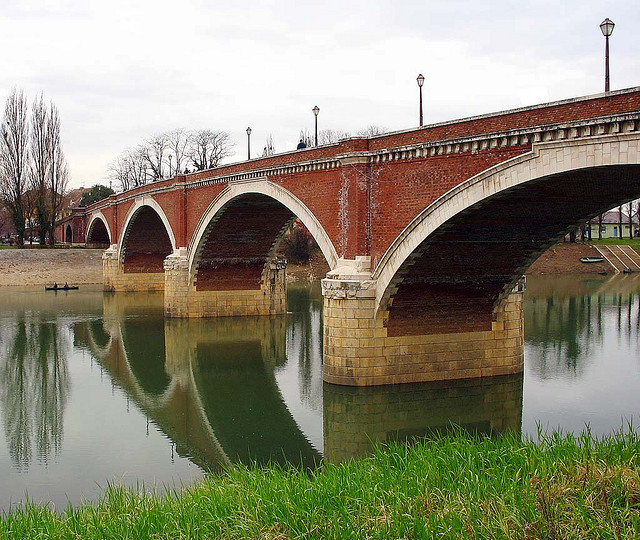 One of the trademarks of the town Sisak (Croatia) over the river Kupa